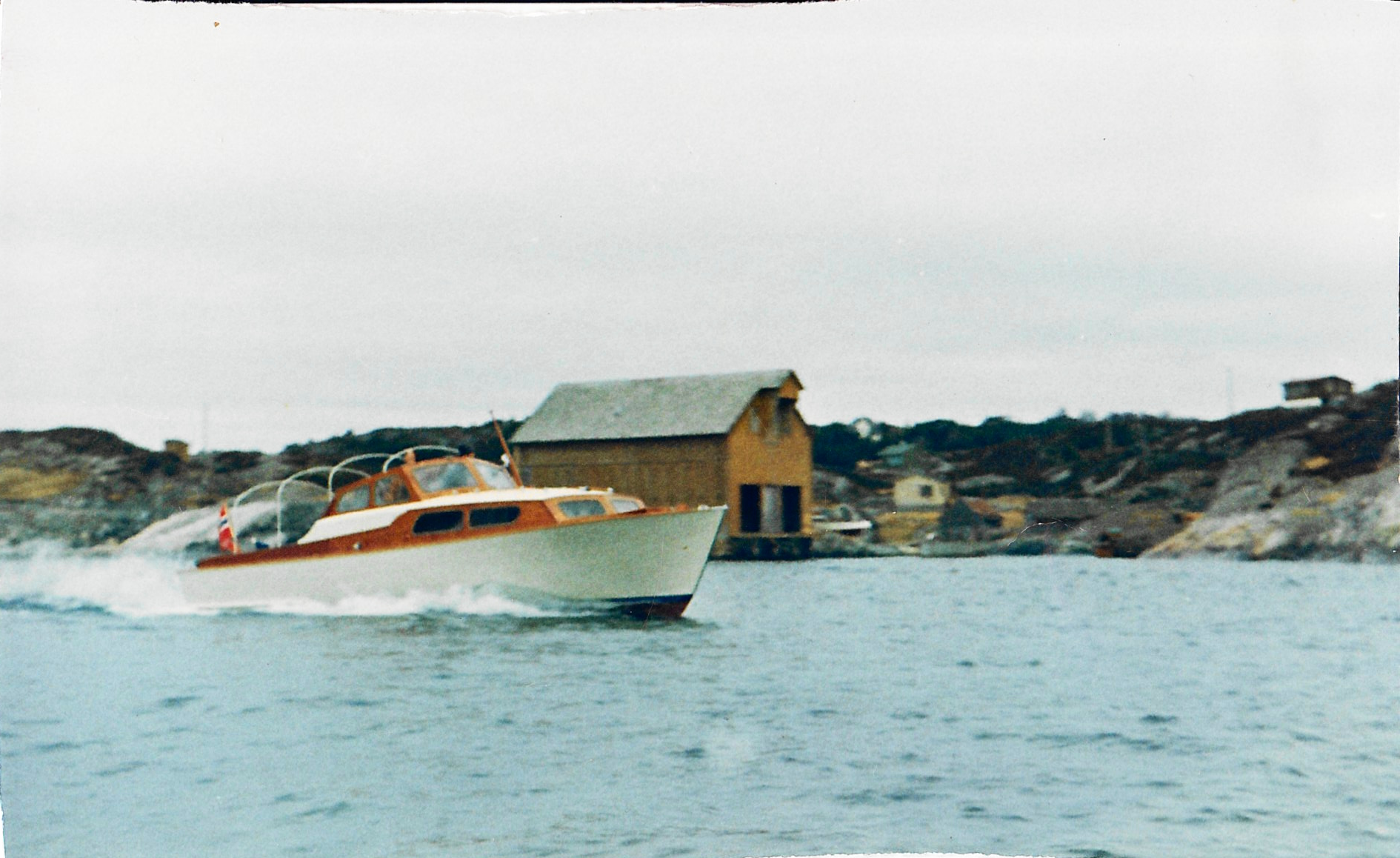 Kauslands bygget Furuholmen båt